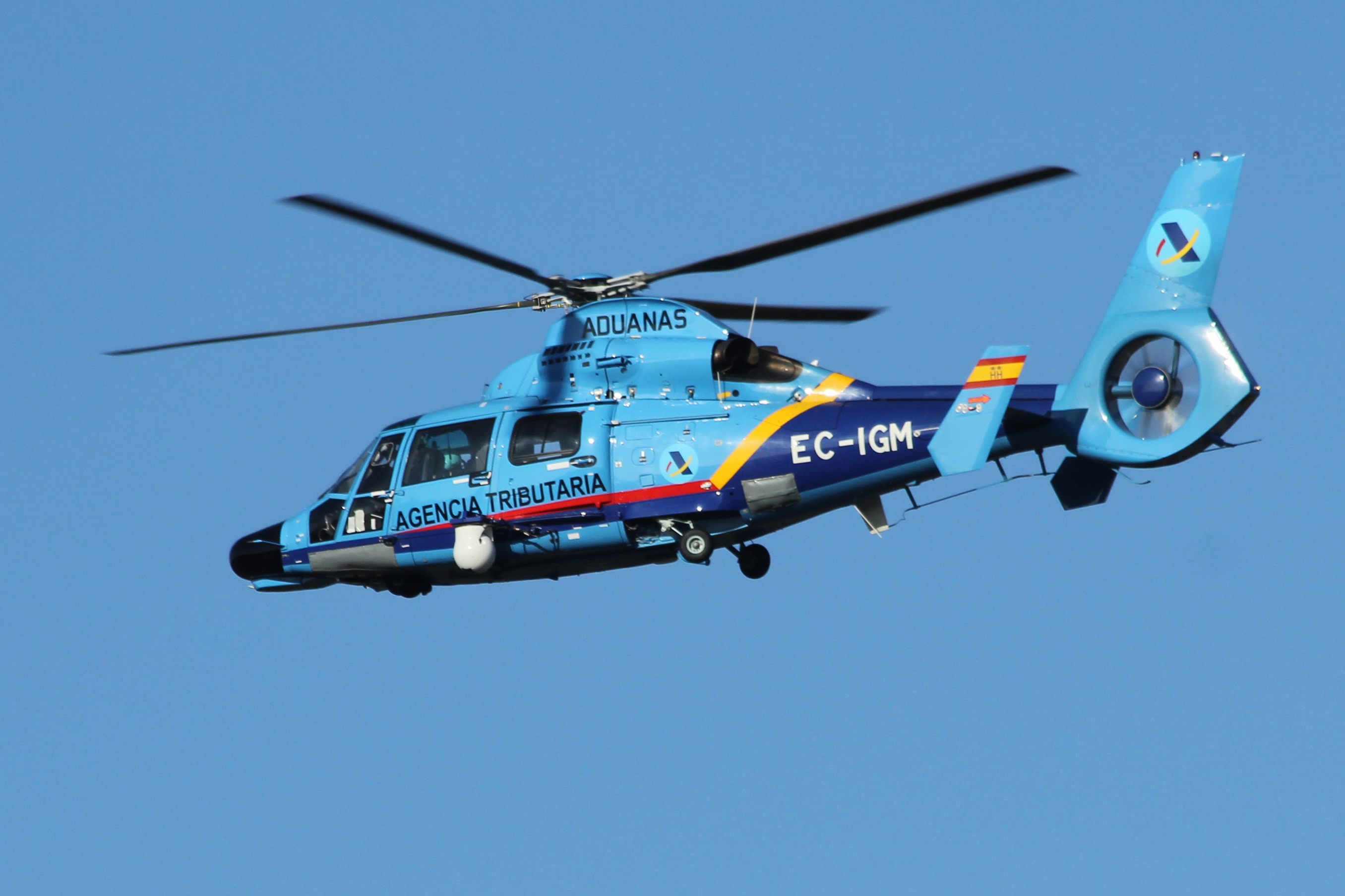 Eurocopter AS-365N Dauphin (EC-IGM) del Servicio de Vigilancia Aduanera (SVA) de la Agencia Tributaria, un cuerpo policial encargado de perseguir el contrabando, el blanqueo de capitales y el fraude fiscal en España. El helicóptero estaba despegando del Aeropuerto de Peinador. Vigo (Galicia, España). Eurocopter AS-365N Dauphin of the Customs Watch Service. Eurocopter AS-365N Dauphin (EC-IGM) of the Customs Watch Service (SVA) of the Tributary Agency, a police service entrusted to prosecute the smuggling, the whitening of the capitals and the tax evasion in Spain. The helicopter was taking off from Peinador's Airport. Vigo (Galicia, Spain).